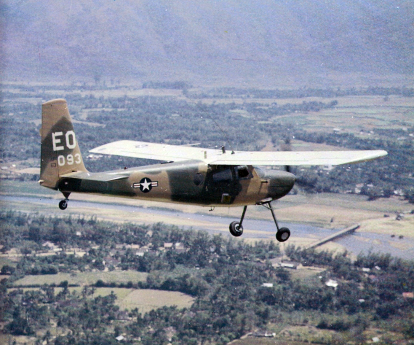 A U.S. Air Force Helio U-10B Courier (s/n 63-13093) from the 5th Special Operations Squadron in flight over Vietnam in 1969.